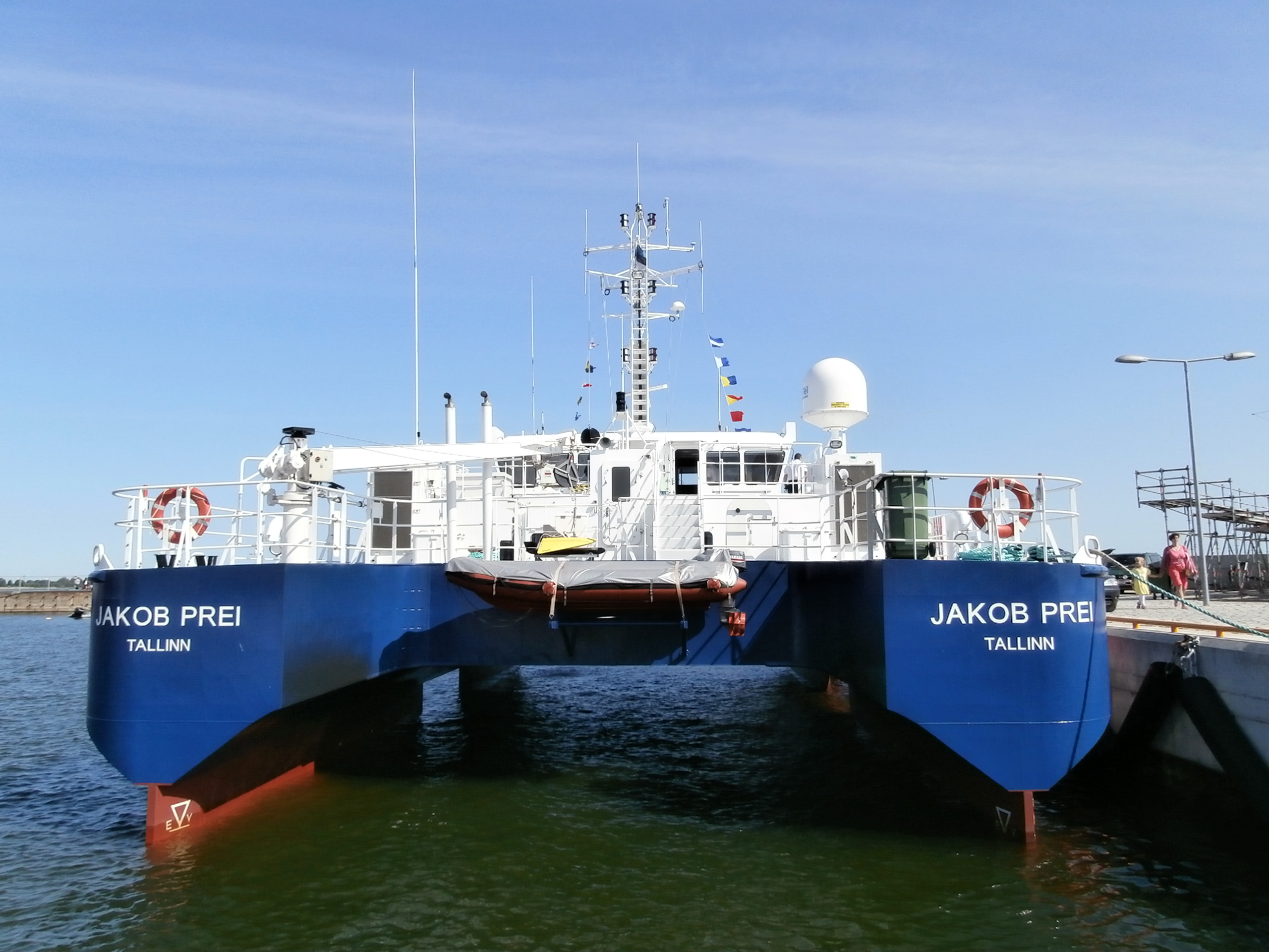 Jakob Prei at quay in Lennusadam in Tallinn 12 July 2013